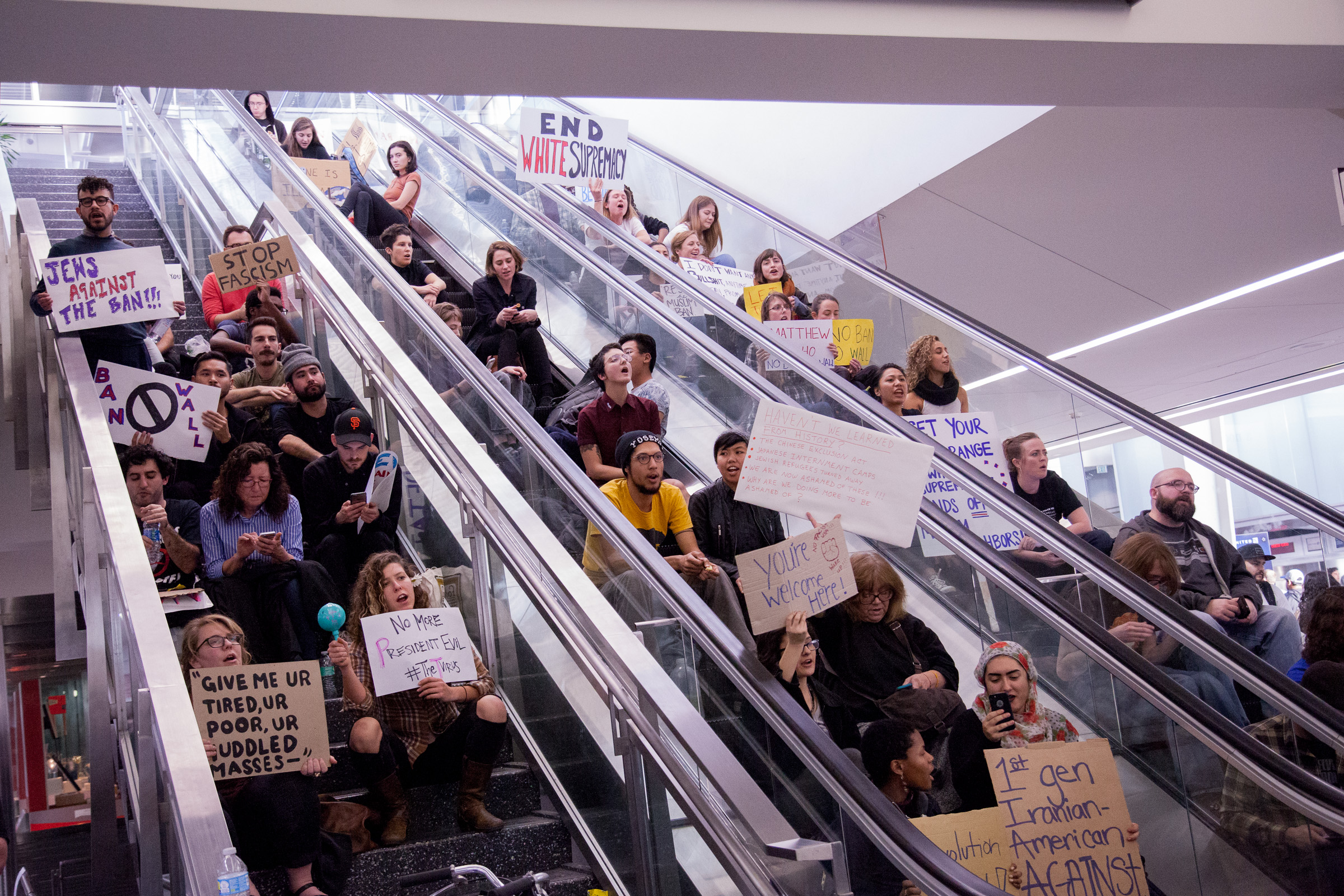 Jews against the ban! Stop fascism Ban wall Give me ur tired, ur poor, ur huddled masses— No more President Evil #theTvirus End white supremacy Haven't we learned from history? • The Chinese Exclusion Act • Japanese Internment Camps • Jewish refugees turned away • We are now ashamed of these!!! • Why are we doing more to be ashamed of? You're welcome here!